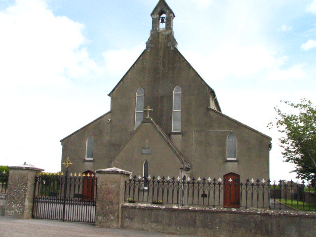 Clara church This church is located a short distance from the main Dublin to Kilkenny road. Clara church was rebuilt in 1870.